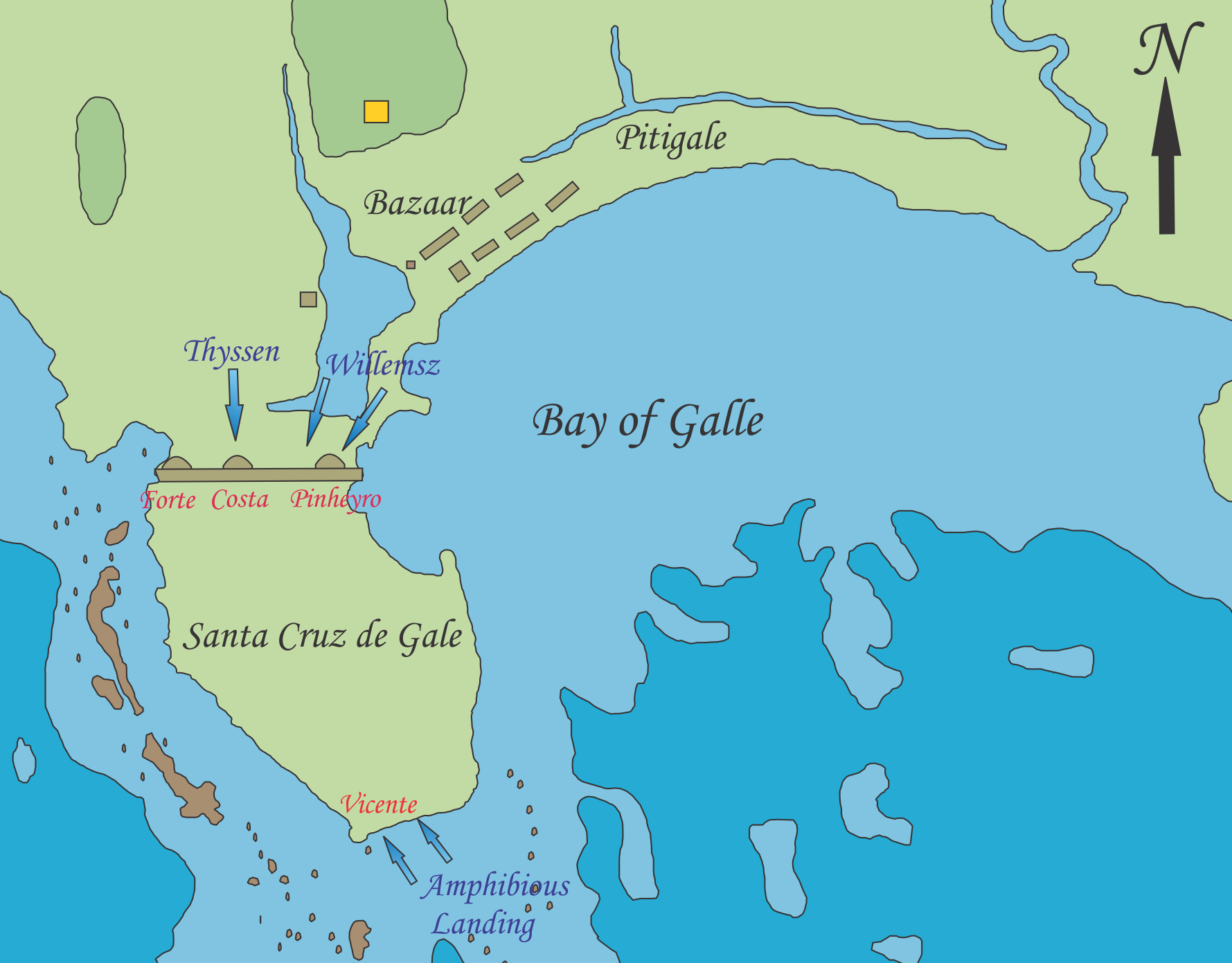 Map showing the Dutch plan of attack, during the siege of Santa Cruz de Gale at Galle on 13th March 1640. Portuguese commanders are shown in red and Dutch assaults are shown in blue. Map based on details in, Fernao de Queyroz. The temporal and spiritual conquest of Ceylon [SG Perera, Trans]. AES reprint. New Delhi: Asian Educational Services; 1995. p831-837 ISBN 81-206-0767-8 Paul E.Peiris. Ceylon the Portuguese Era: being a history of the island for the period, 1505-1658 - Volume 2. Tisara Publishers Ltd:Sri Lanka; 1992. p271-274 OCLC: 12552979.